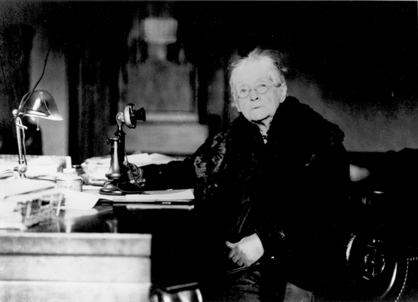 Senator Rebecca Felton at Her Desk